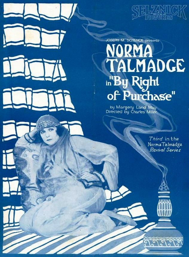 Ad for the American film By Right of Purchase (1918) with Norma Talmadge, apparently for a 1922 re-release of the film, on the inside back cover of the April 1922 Dramatic Mirror.